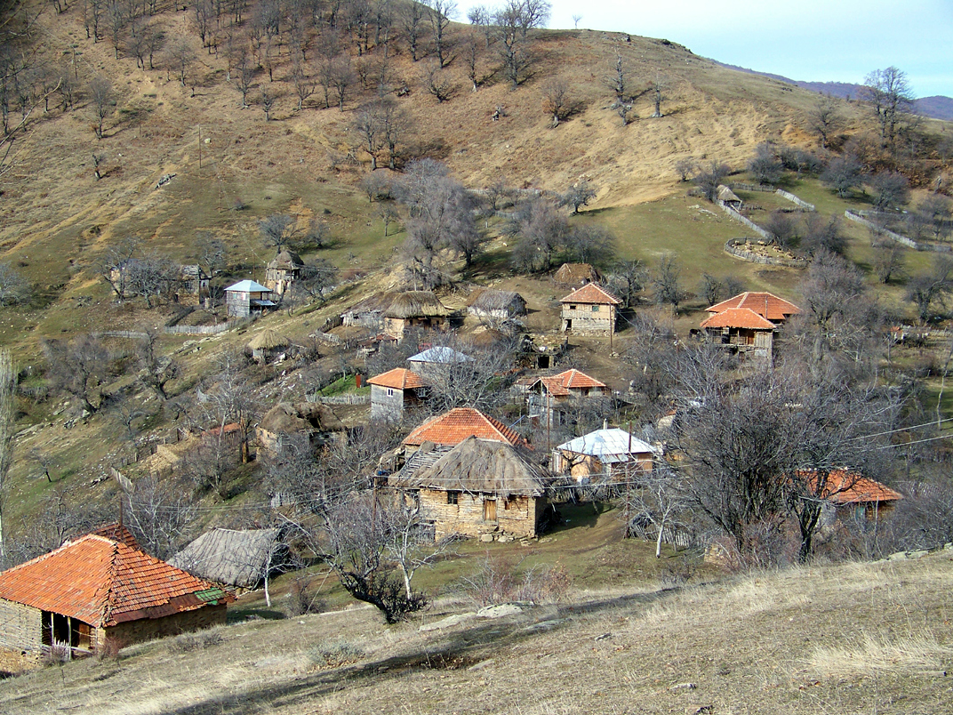 Polaki - а village in Republic of Macedonia